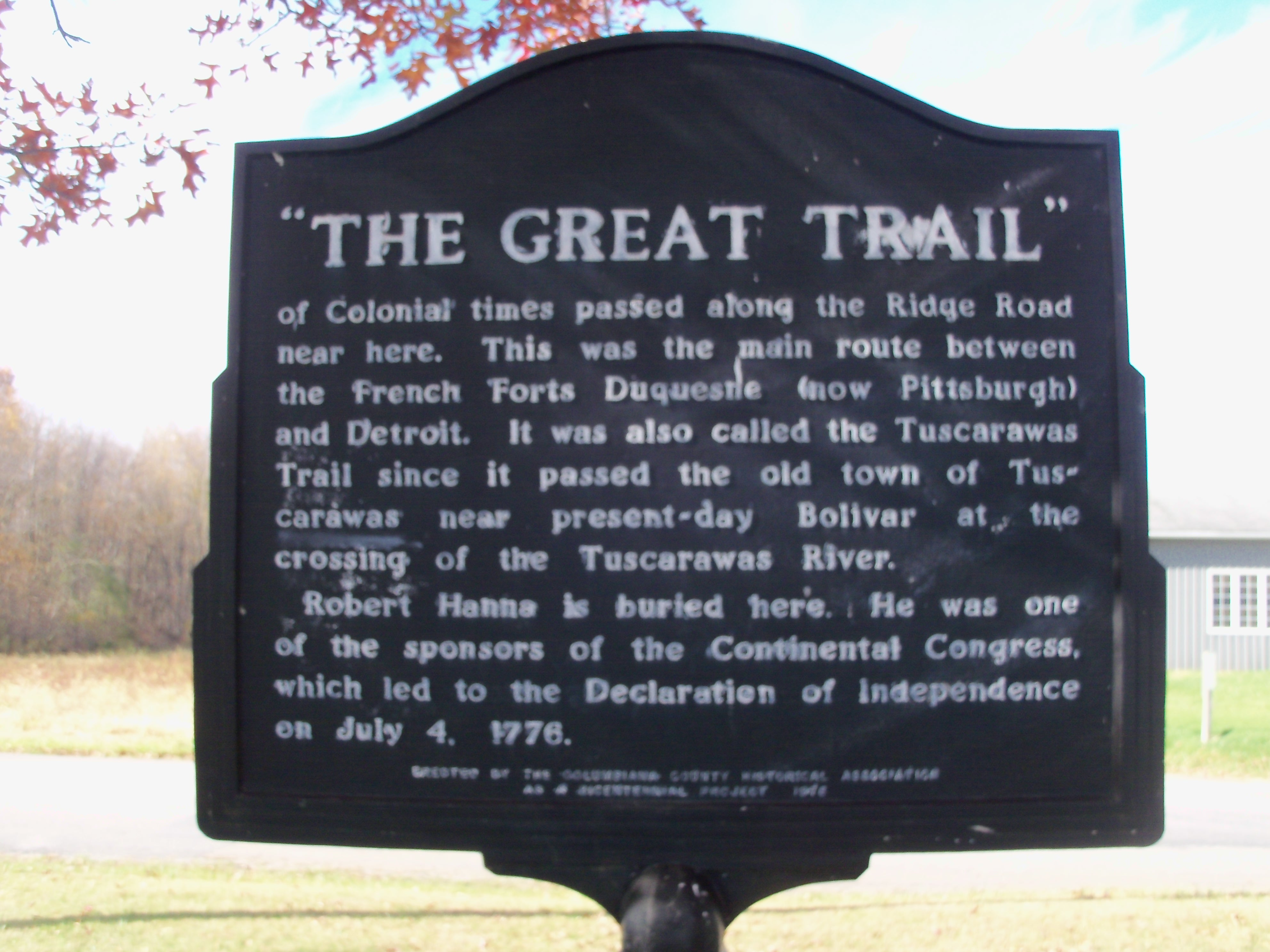 Historical marker along path of Great Trail, also called the Tuscarawas Trail, along boundary of Carroll County, Ohio, left, and Columbiana County, Ohio, right.